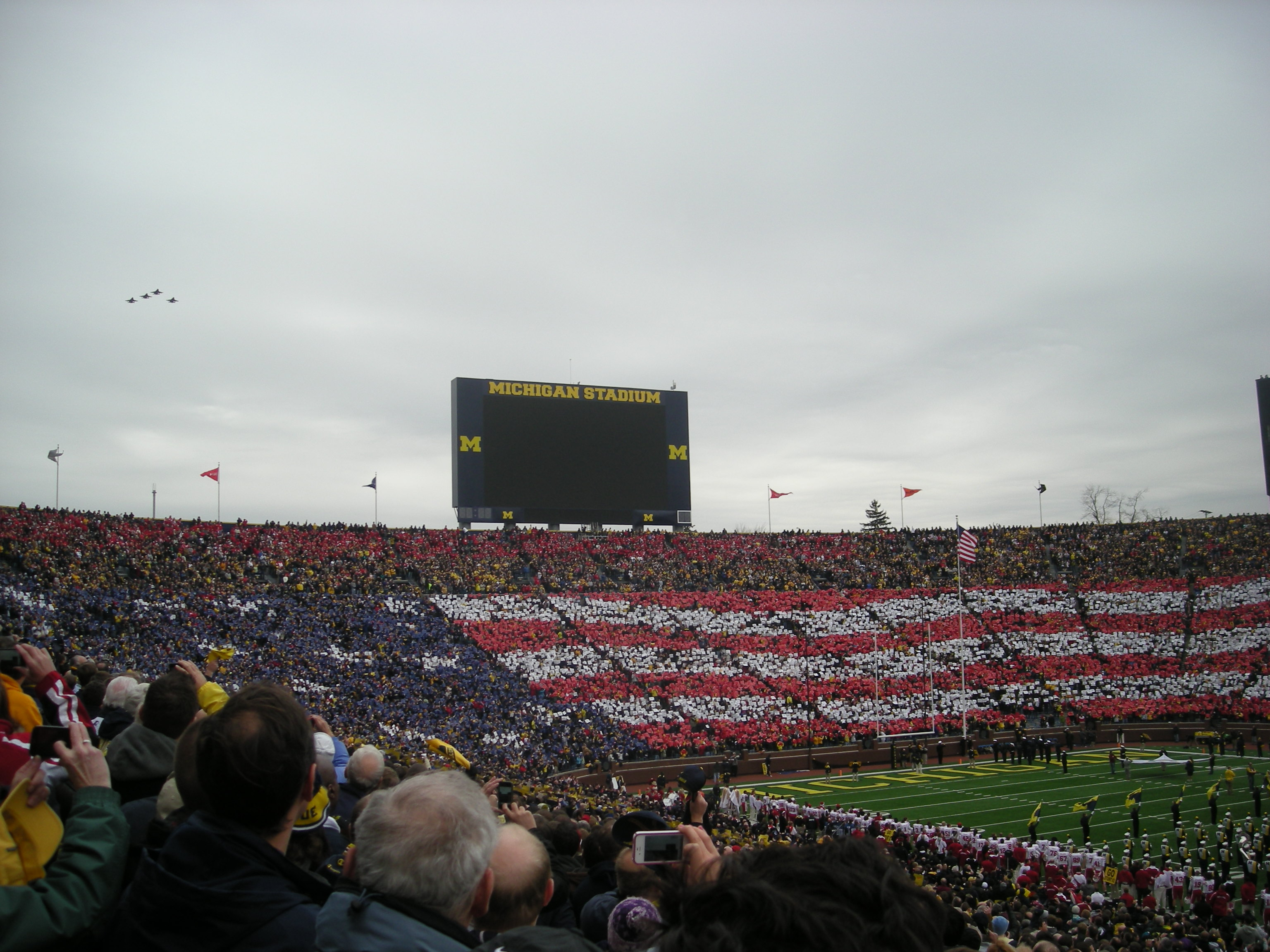 A card stunt and flyover following the national anthem before the Nebraska Cornhuskers vs. Michigan Wolverines football game at Michigan Stadium in Ann Arbor, Michigan (United States). Michigan won 45–17.